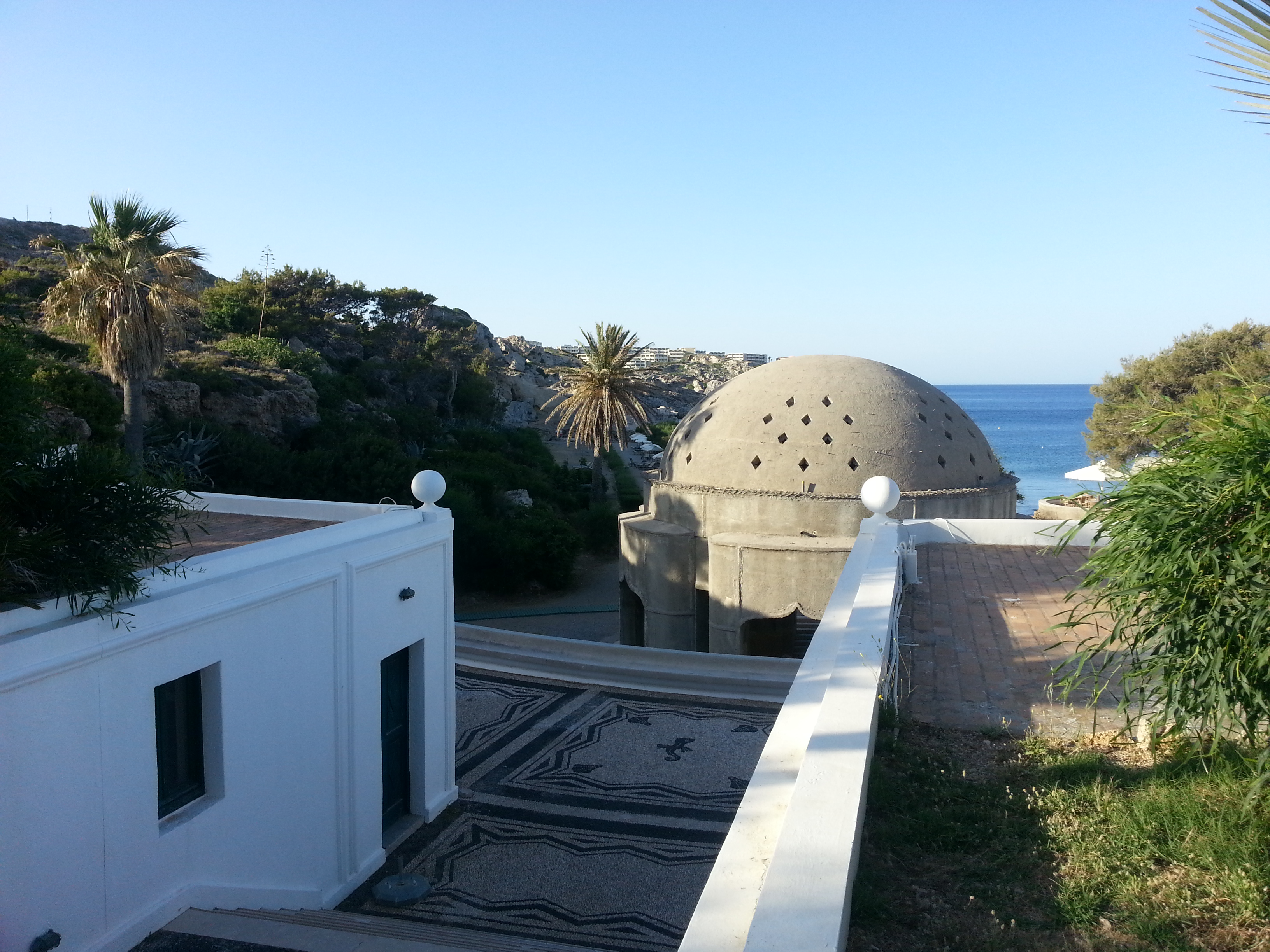 Kallithea (Rhodes)